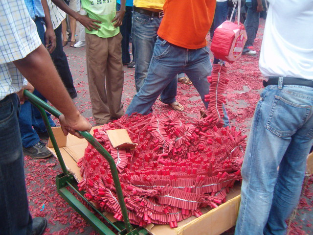 Fire-cracker chain in a Suriname marketplace